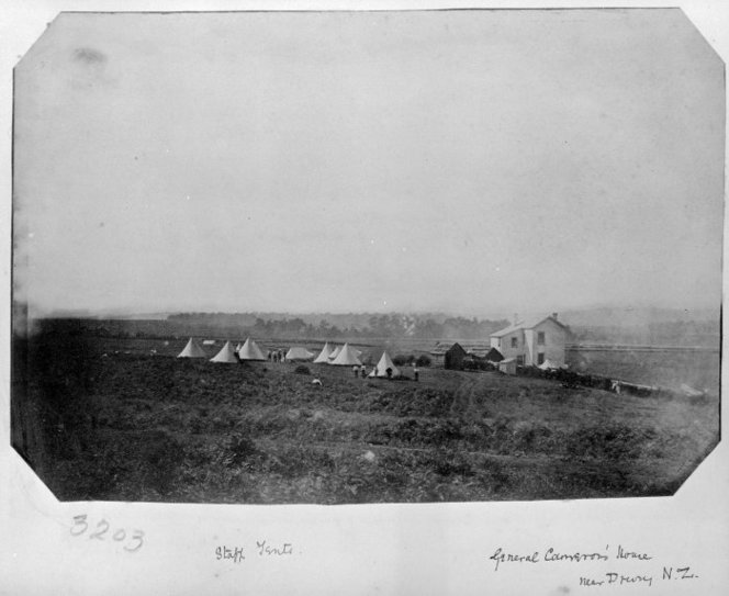 The house of General Duncan Cameron near Drury, Auckland, with the staff tents to the left, photographed by William Temple, ca 1861-1865. Temple, William, 1833-1919. General Cameron's house, near Drury, Auckland. Urquhart album. Ref: PA1-q-250-47. Alexander Turnbull Library, Wellington, New Zealand. /records/23203910